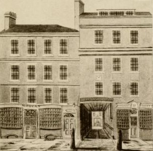 The archway entrance to the outer court of "Belle Sauvage" yard on the north side of Ludgtae Hill. Not the archway to the inner court is visible on the other side (1782).